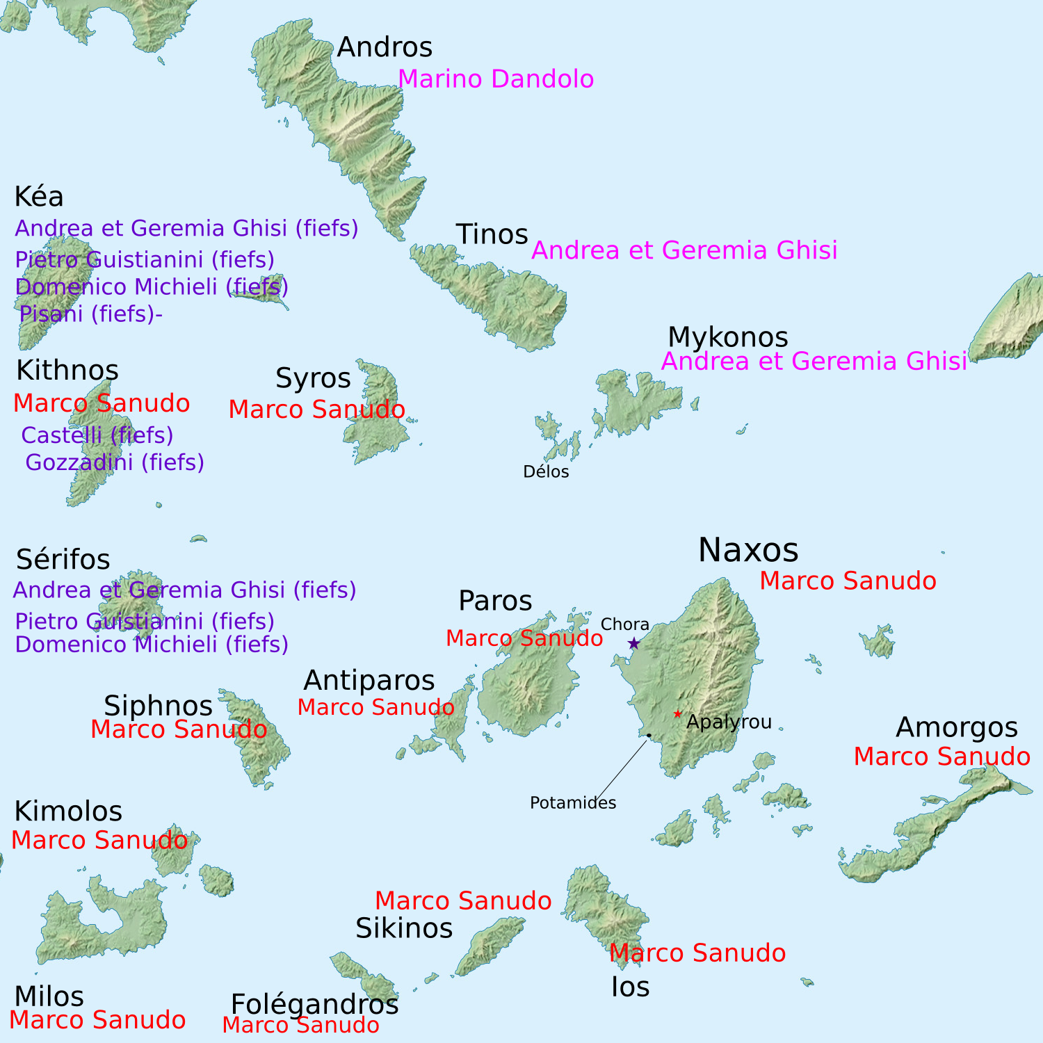 The conquerors of Cyclades sharing the islands